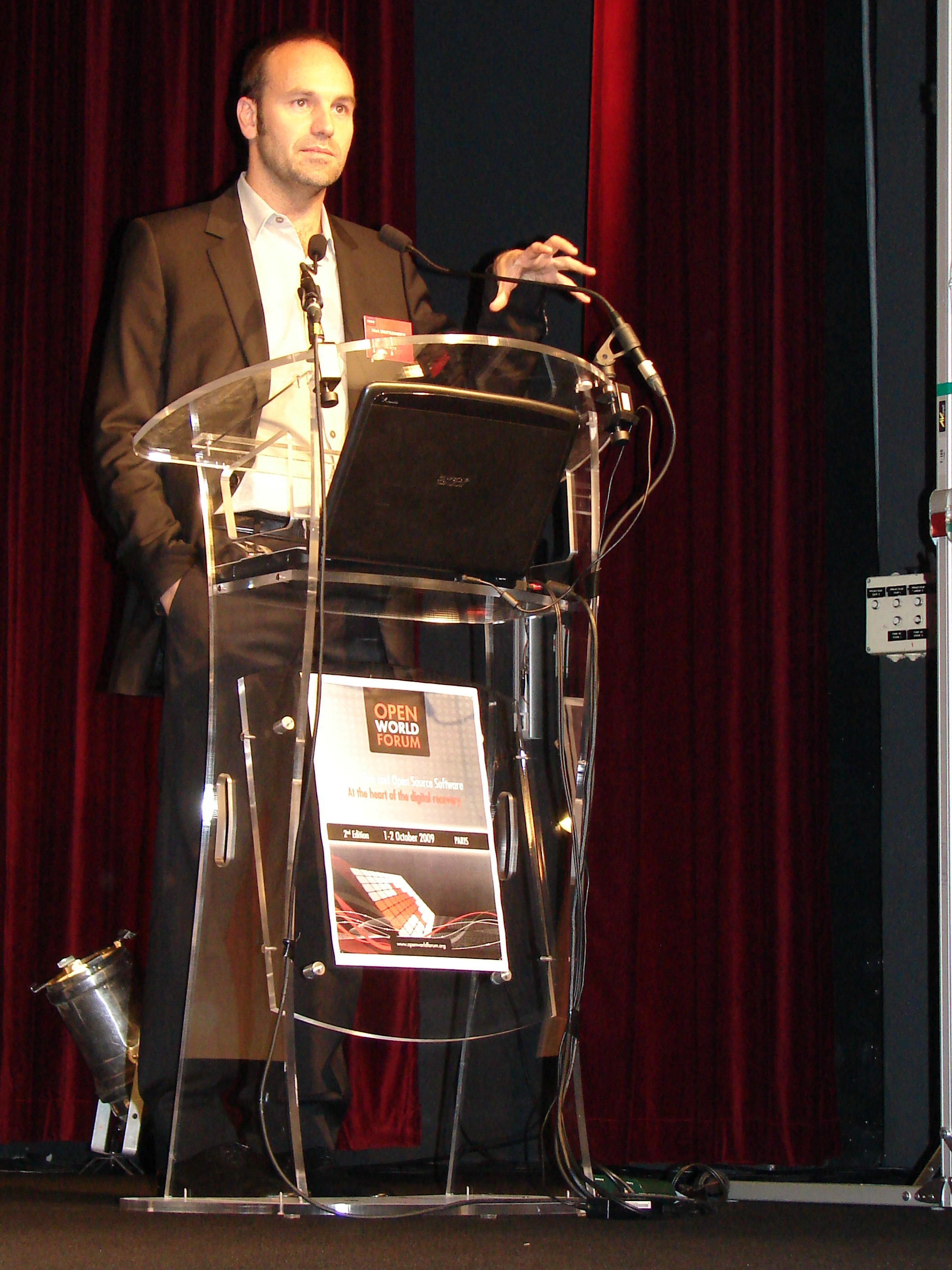 Mark Shuttleworth, speaker at Open World Forum